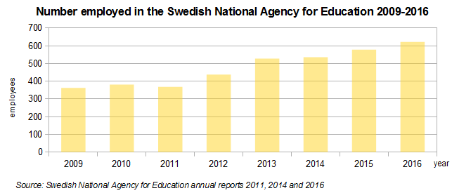 Swedish National Agency for Education: number of employees 2009-2016. Annual reports 2011, 2014 and 2016: Tabell 32 Tabell 89 Tabell 43